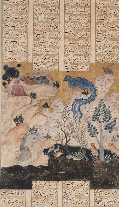 Iran, Qazvin, circa 1560-1565 Manuscripts Ink, opaque watercolors and gold on paper The Nasli M. Heeramaneck Collection, gift of Joan Palevsky (M.73.5.447) Islamic Art